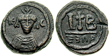 Byzantine-style coinage struck in Alexandria under Khosrow II, during the Sasanian occupation of Egypt (619-629).